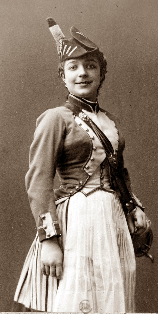 Photograph of Juliette Simon-Girard in original production of La fille du tambour-major